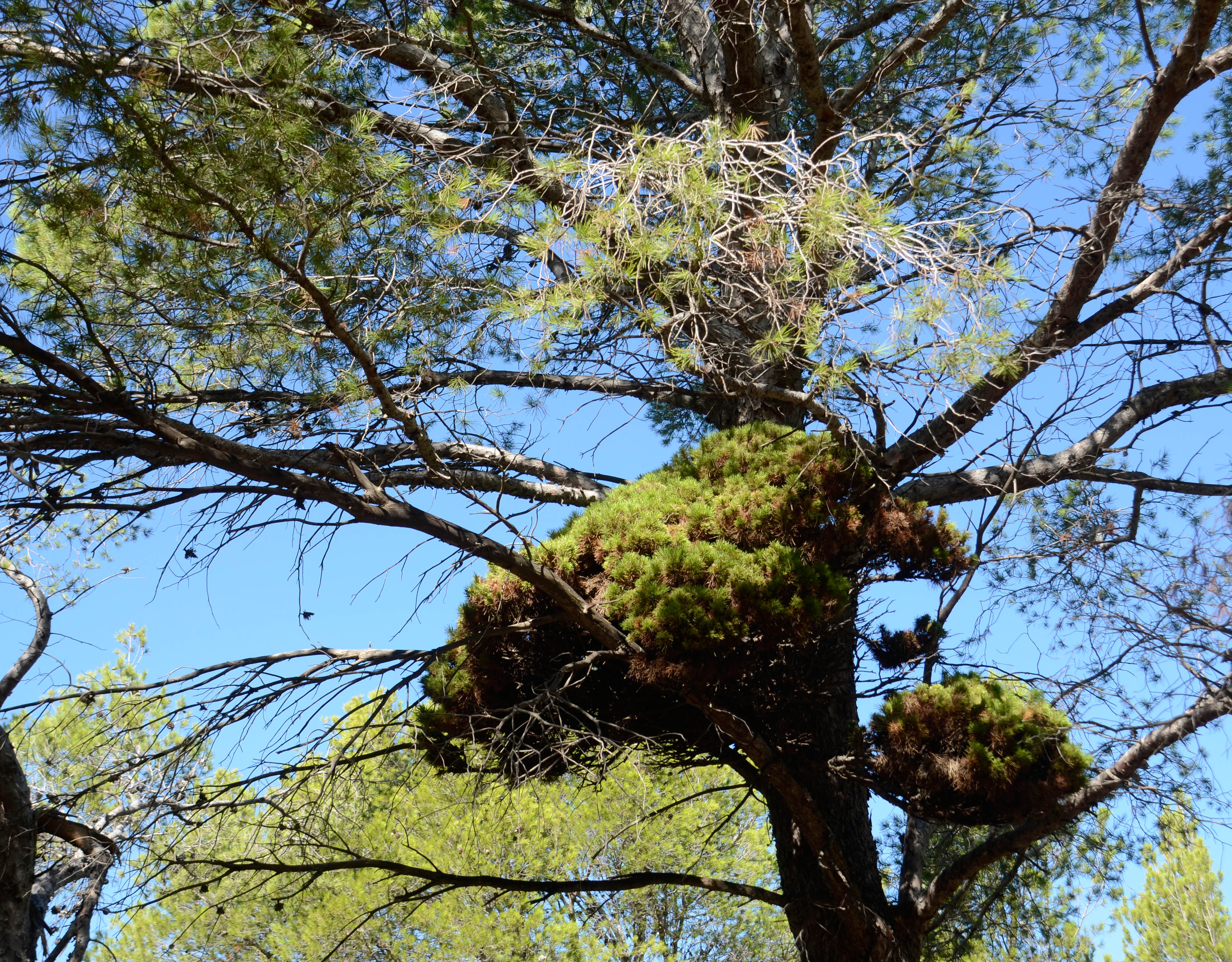 Witch's broom in pine, near Sant Elm, south-west Mallorca